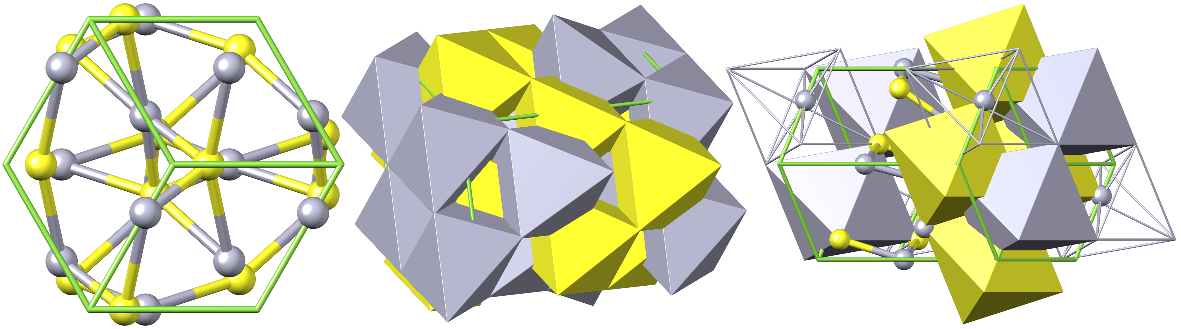 Crystal structure of cinnabar - HgS. Buckley H, Vernon W Colour code: Mercury, Hg: gray Sulfur, S: yellow Cell: green